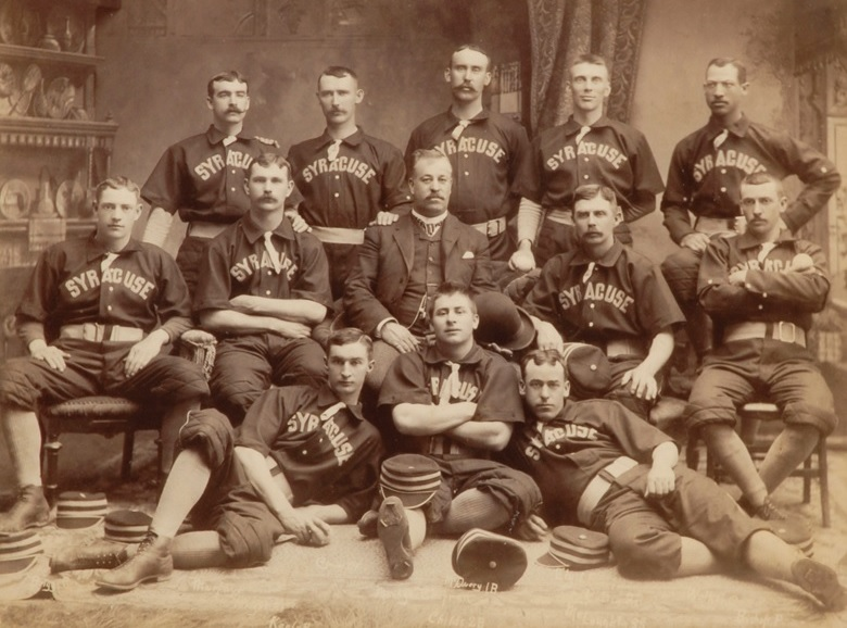 Photo of the Syracuse Stars of 1889. Moses Fleetwood Walker is at the upper right. According to the secondary source listed below, also pictured are "Briggs, Murphy, Wright, Keefe, Connors,... McQuery, Childs, Ely, McLaughlin and Bishop".